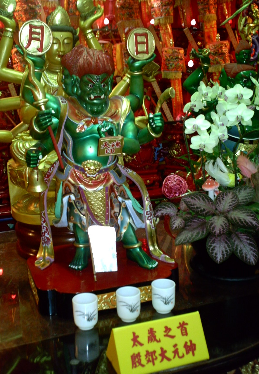 Yin jiao, the leader of 60 Tai Sui. Photo taken at Tai Sui Palace of Hotsu Longfong Temple, Zhunan Township, Miaoli County (Taiwan).